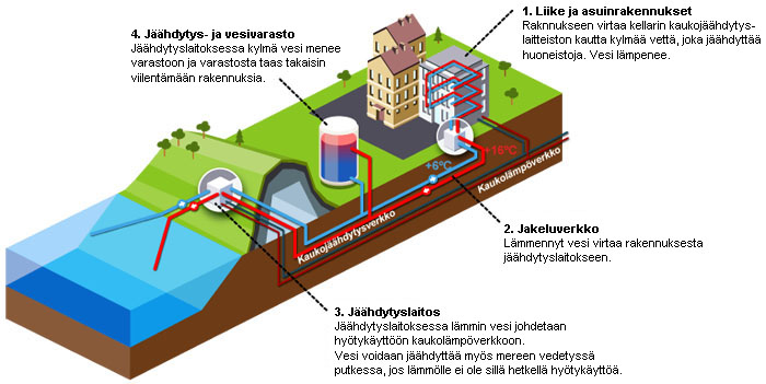 Diagram of district cooling principle